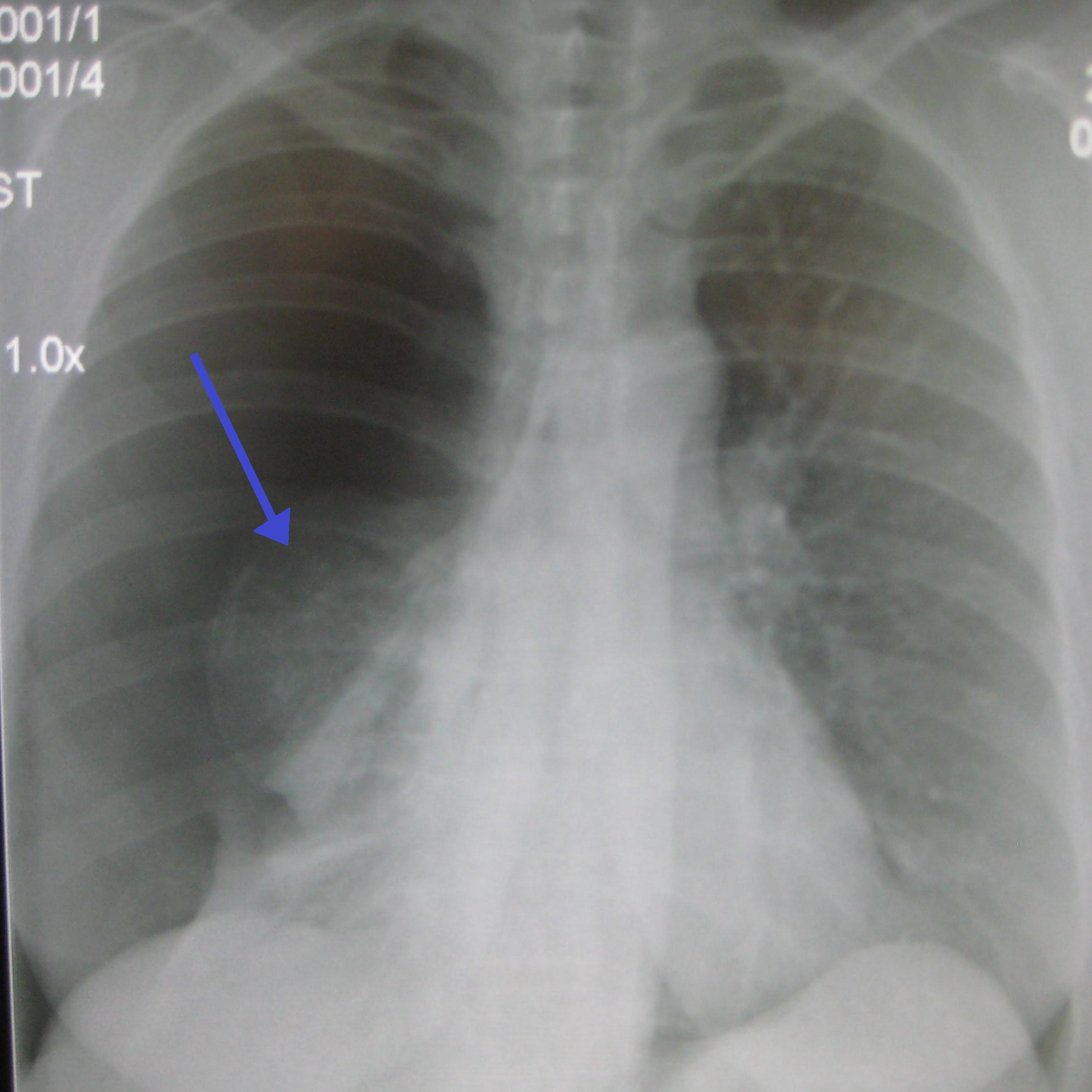 A large right-sided spontaneous pneumothorax. An arrow indicates the visible edge of the collapsed right lung.